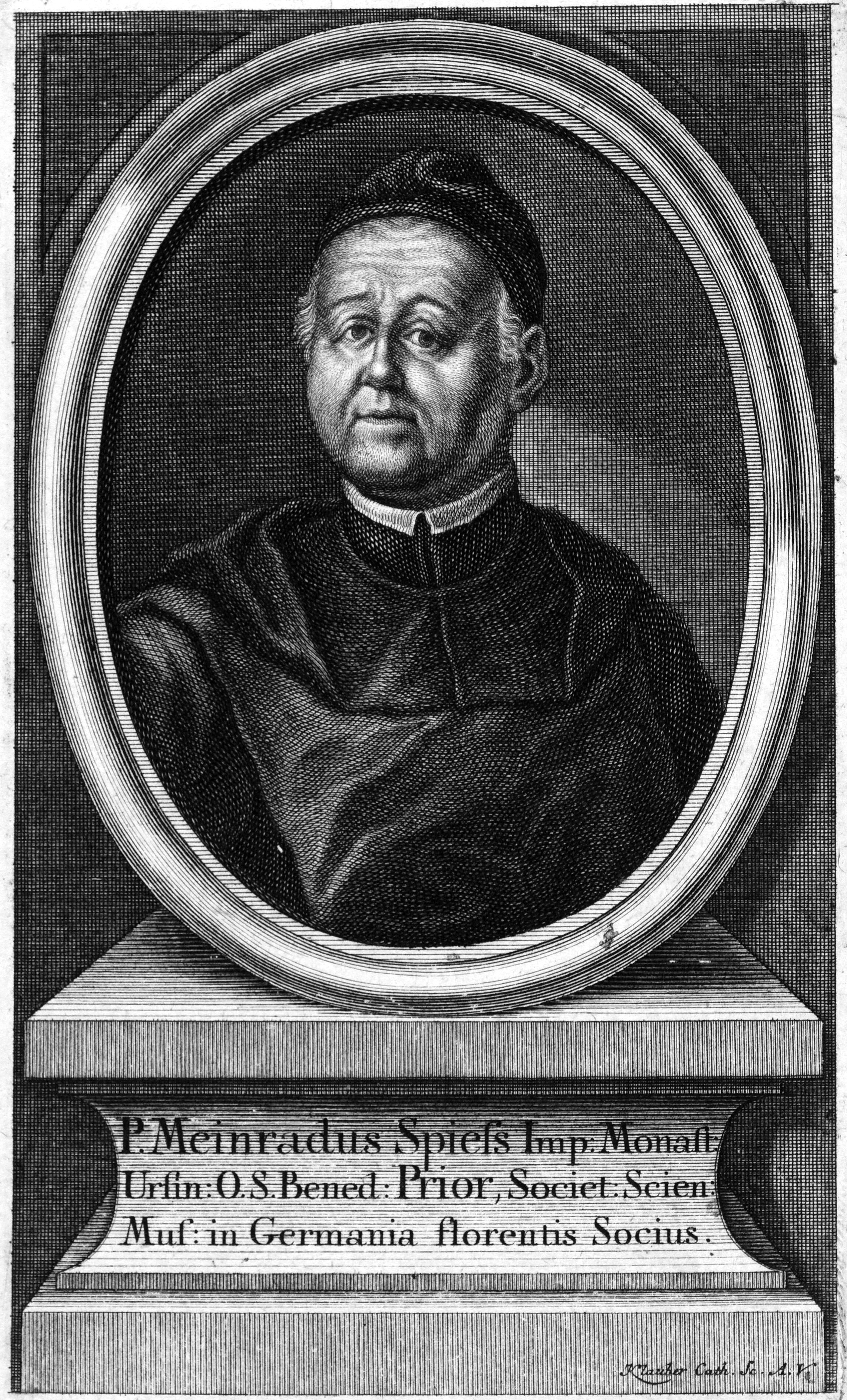 Depicted person: Meinrad Spieß